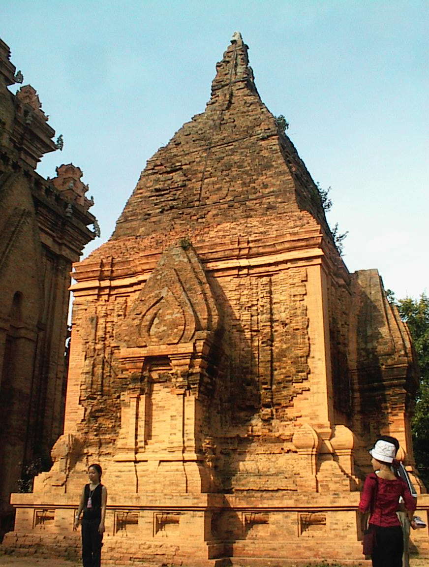 Temple Cham de Nha Trang